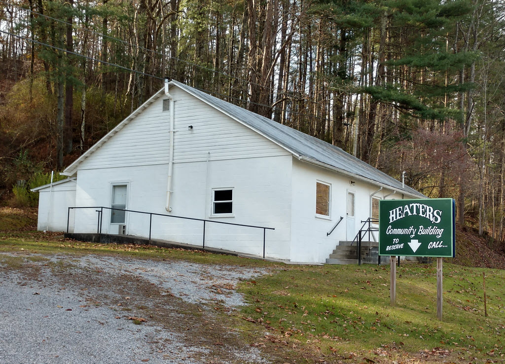 A picture of the Heaters Community Building, located in Heaters, WV.